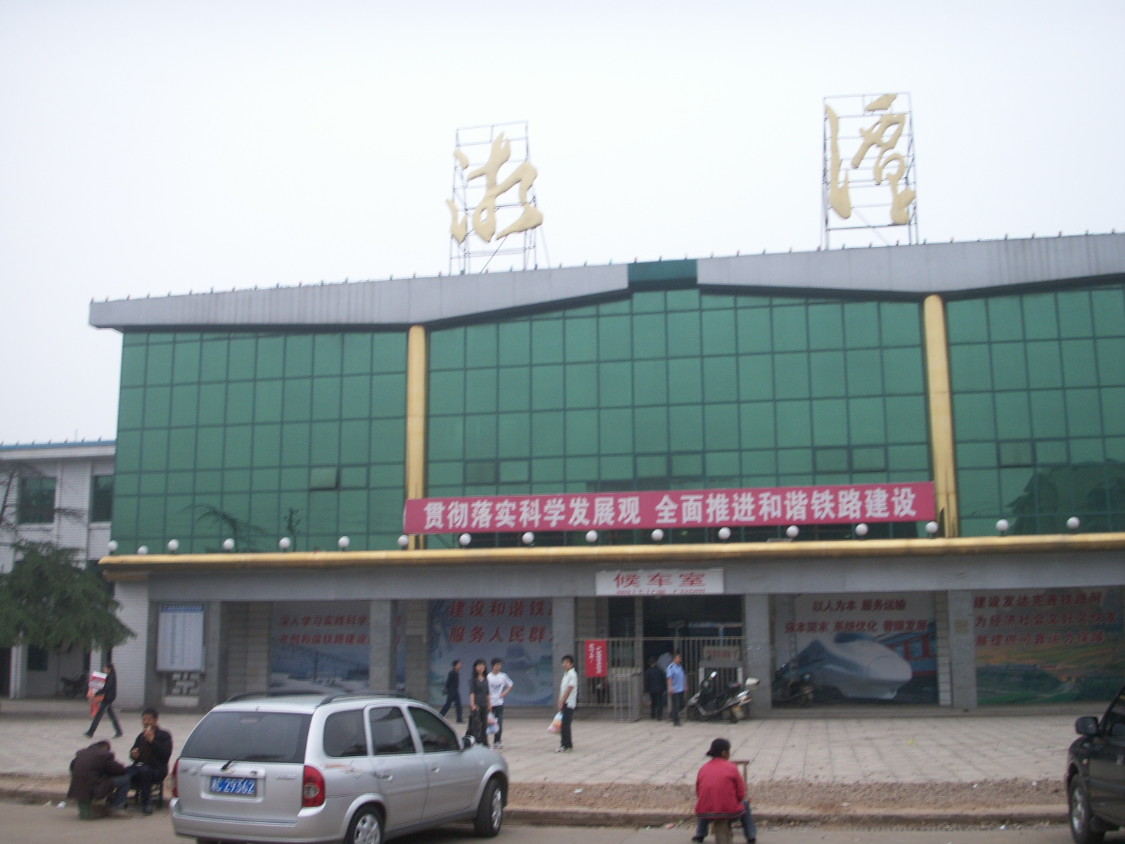 xiang tan station